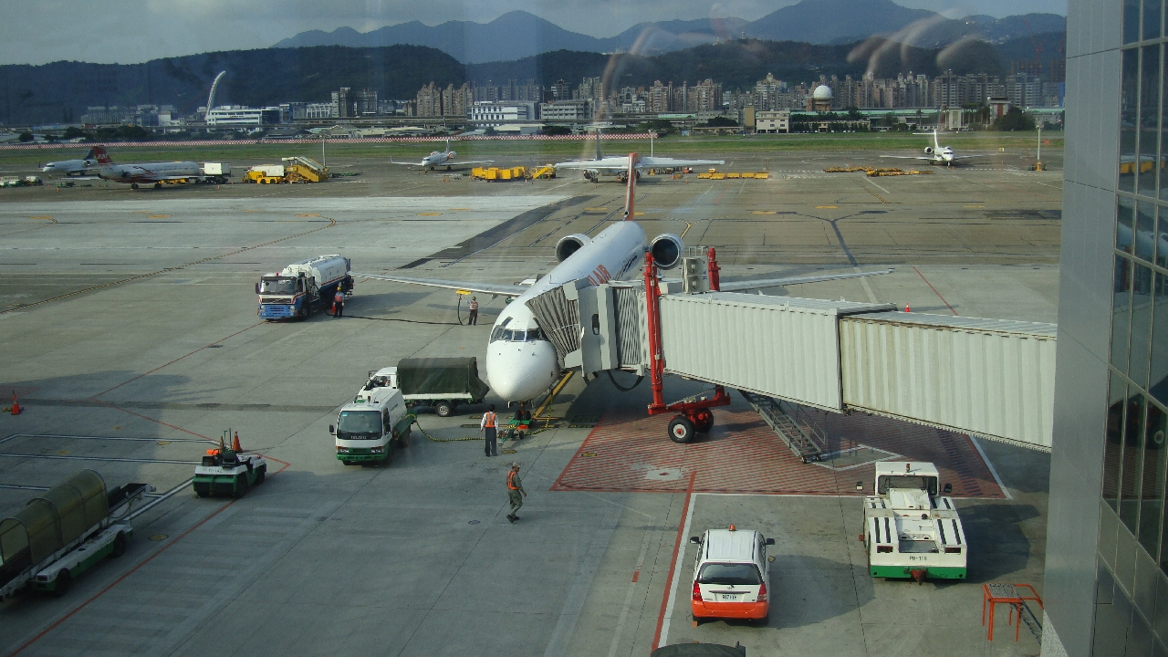 Seen from the observation deck of the Songshan Airport air bridge 10 and dock in the UNI flight.